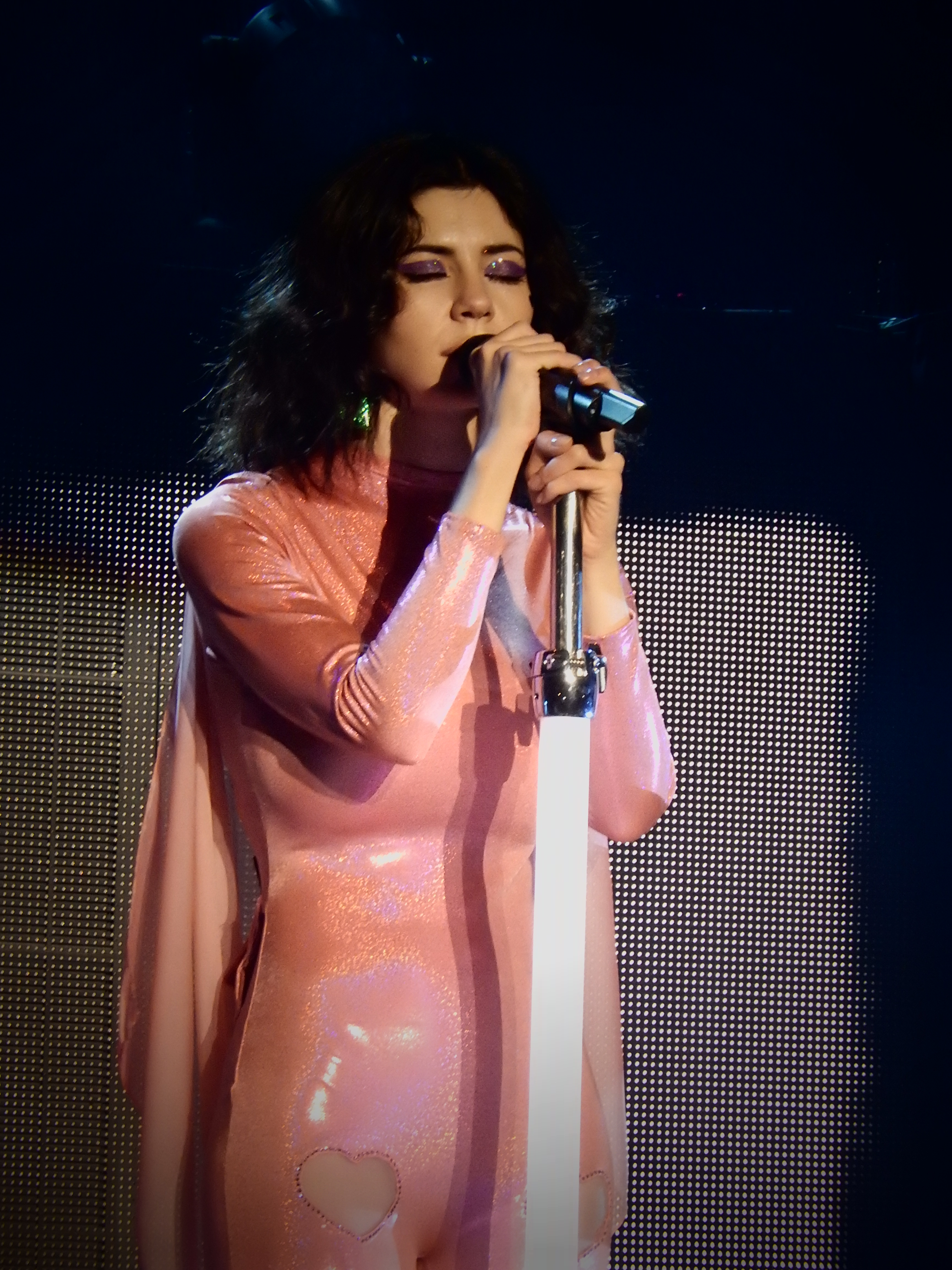 Marina performing at Roundhouse on February 21, 2016.